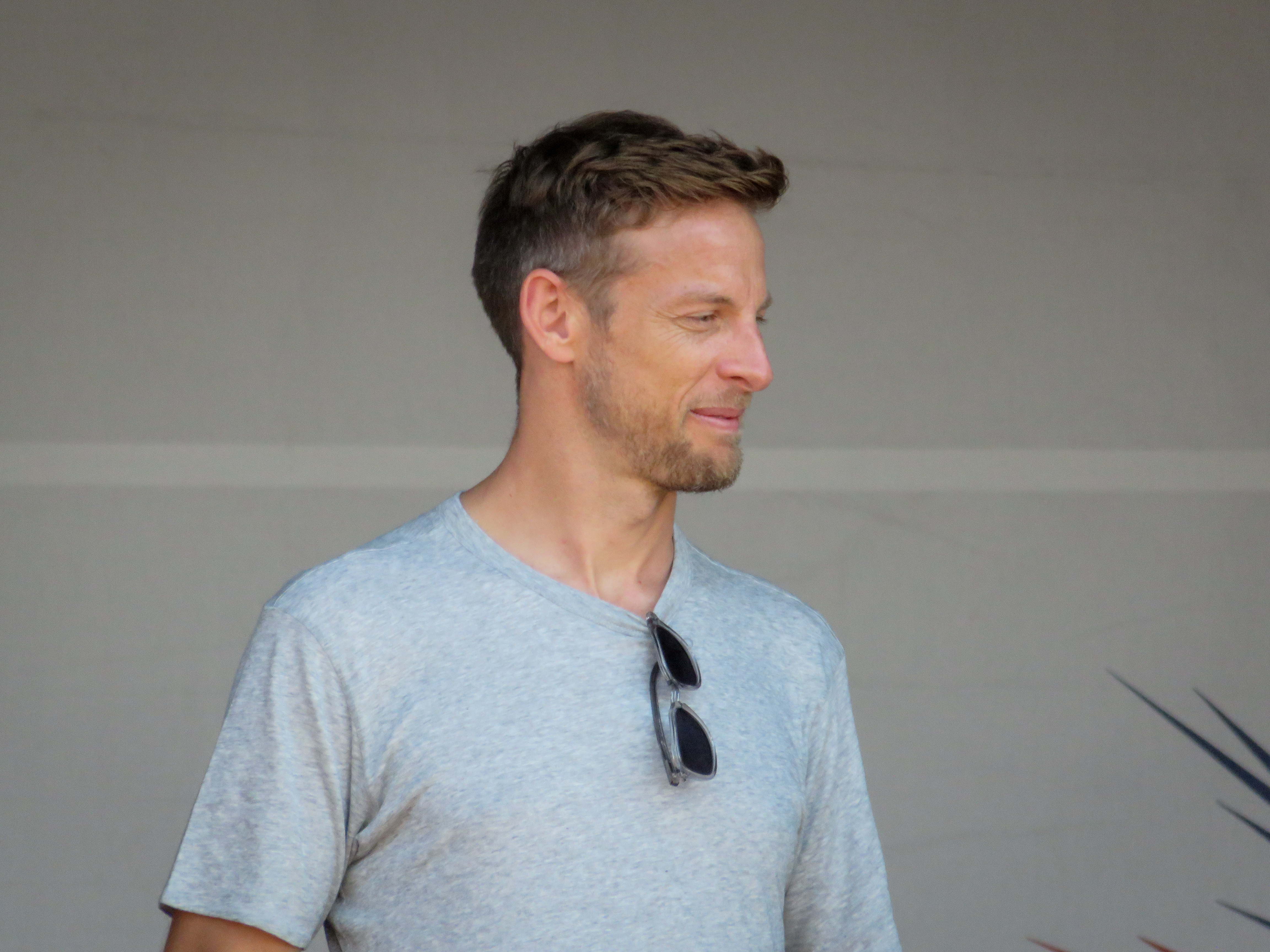 Jenson Button, British GP 2018